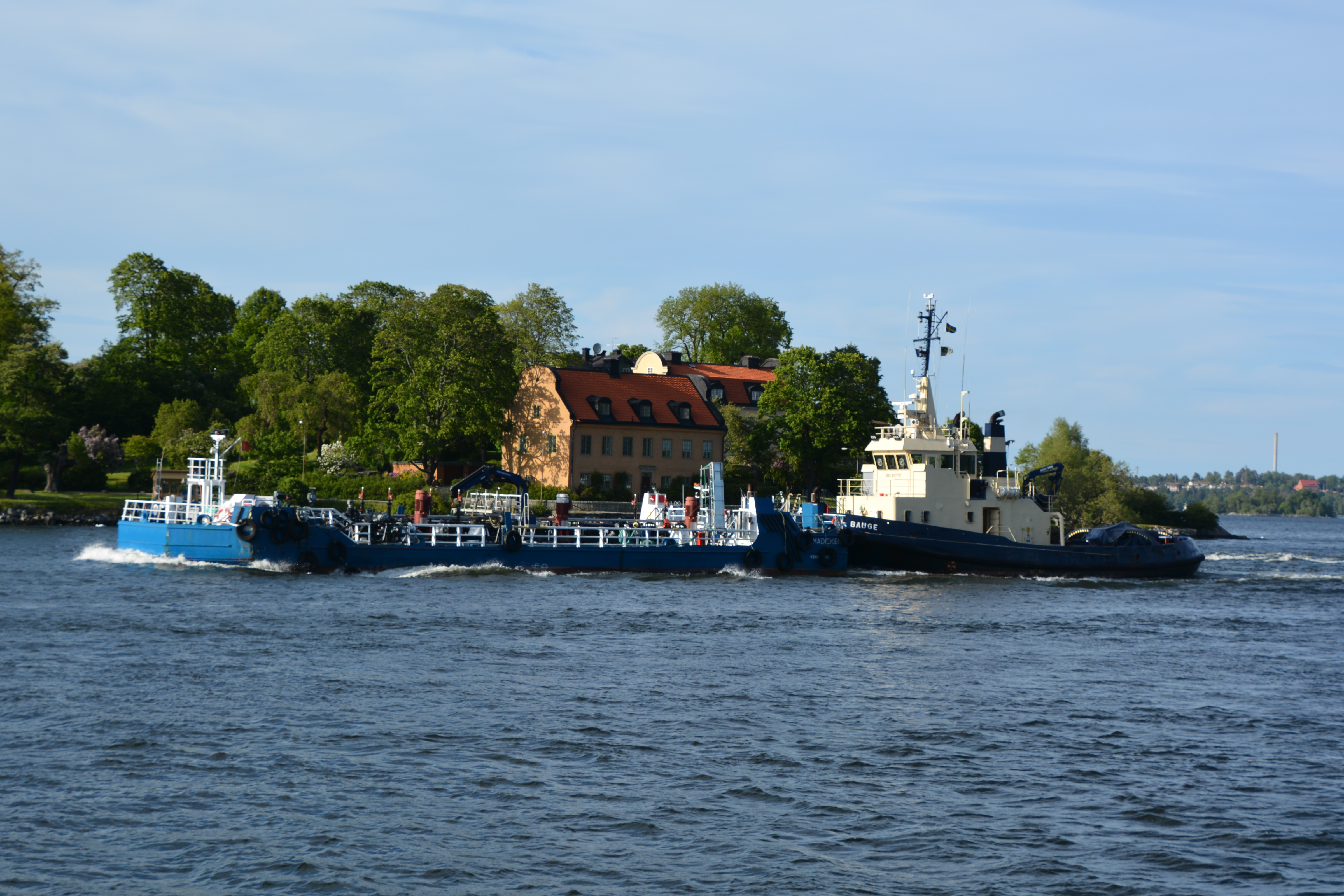 Swedish tugboat Bauge, Stockholm harbour